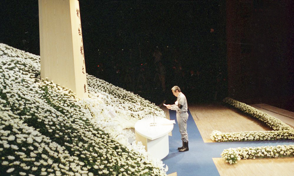 Kazutoshi Sasayama, Mayor of Kōbe City, read a address of mourning at the memorial service for the victims of the Great Hanshin/Awaji Earthquake at the Kobe Bunka Hall in Kōbe City, Hyōgo Prefecture on March 5, 1995.